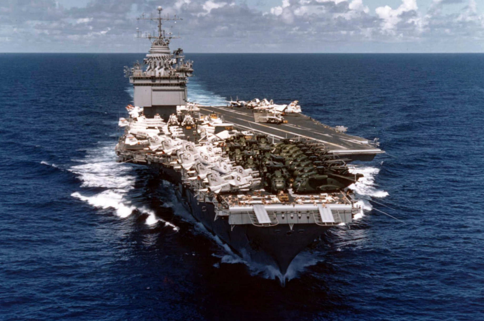 The U.S. Navy aircraft carrier USS Enterprise (CVAN-65) underway returning to the United States from Western Pacific cruise that included the evacuation of Saigon. The aircraft on her deck include U.S. Marine Corps Sikorsky CH-53 Sea Stallion helicopters, which were hitching a ride home on board the ship. Note the men sunbathing on the forward part of the flight deck.